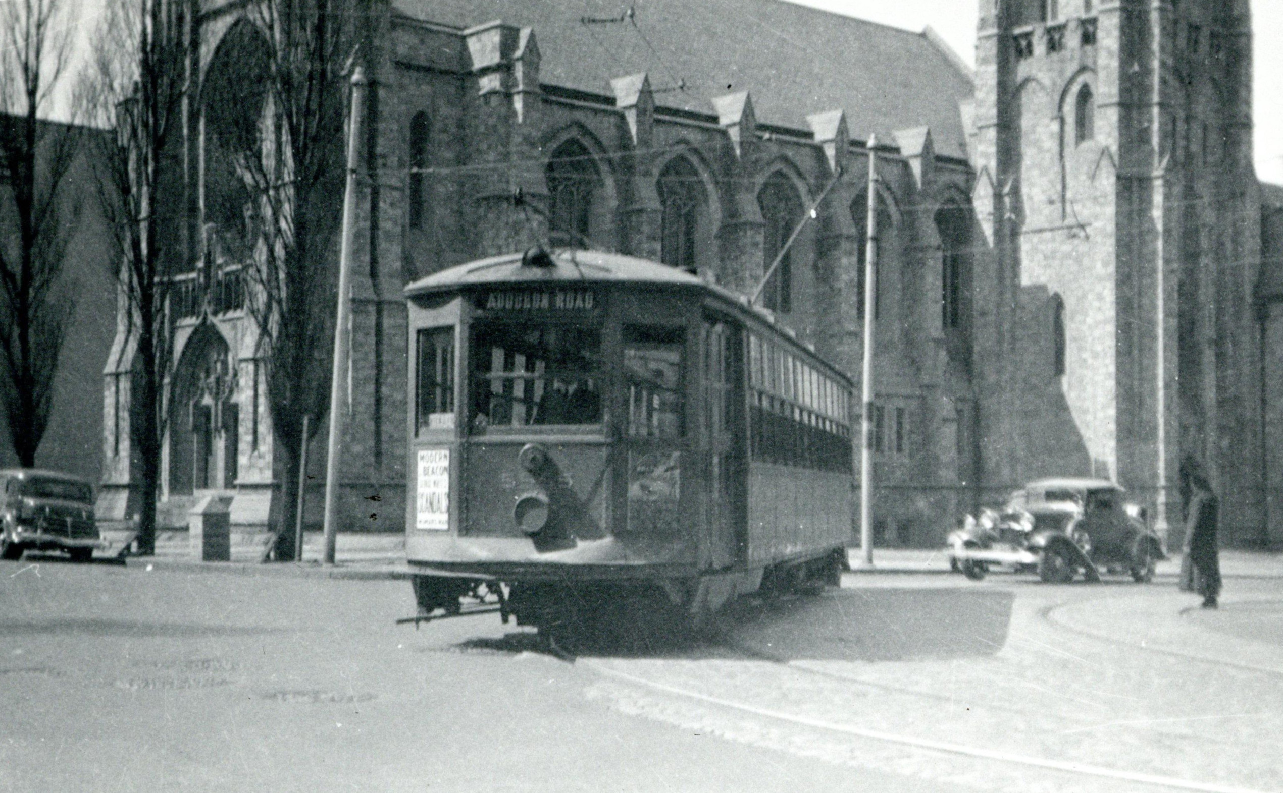 Type 5 streetcar #5545 turns onto Boylston Street from Ipswich Street. It is running on the Aubudon Road–Massachusetts shuttle bound for Massachusetts (wrongly signed), placing this between mid-1933 and July 14, 1934.